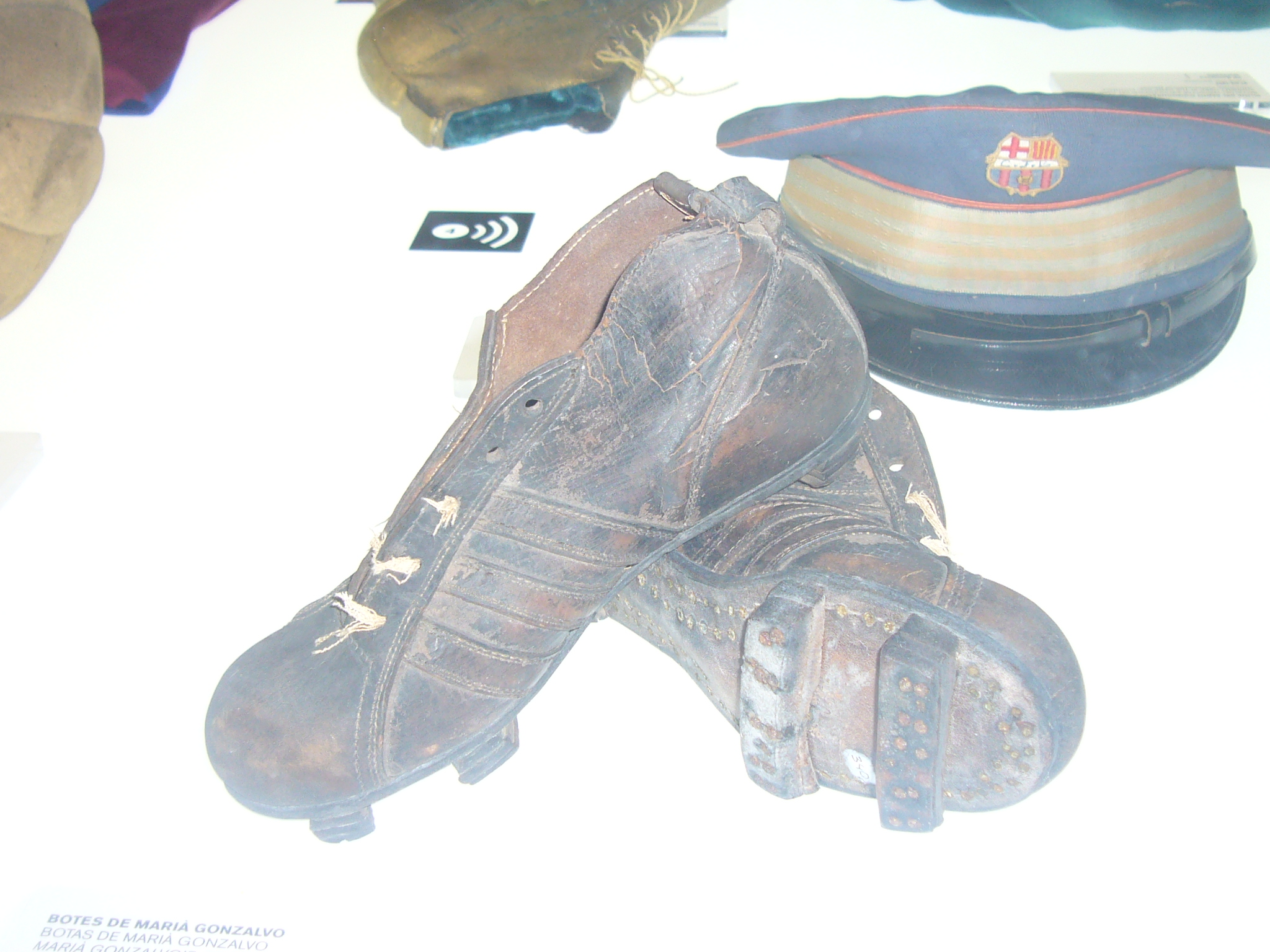 Boots of Marià Gonzalvo. Barça museum